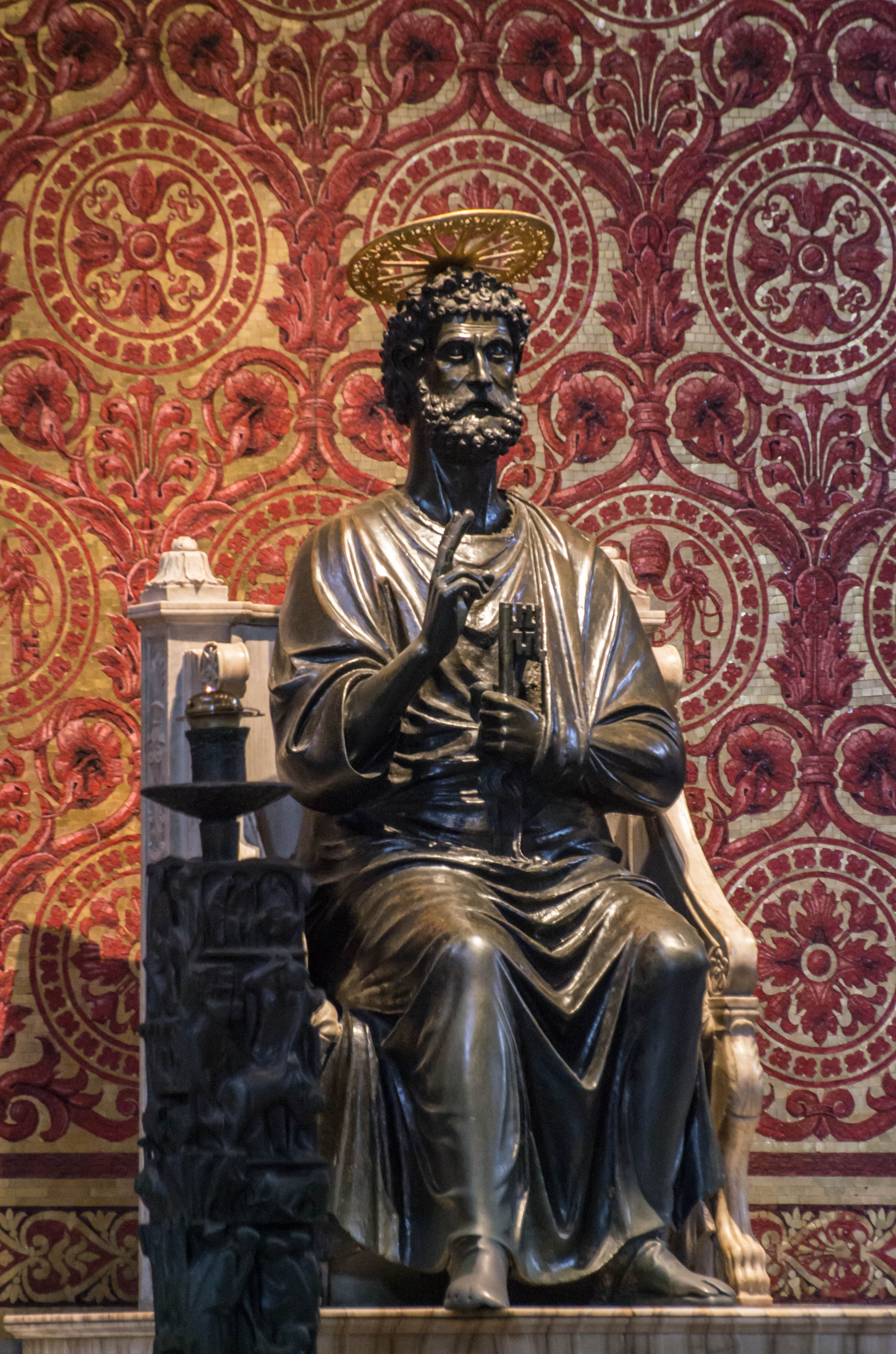 Statue of Saint Peter by Arnolfo di Cambio